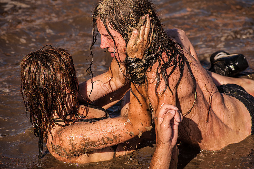 Woodstock Poland Festival 2013